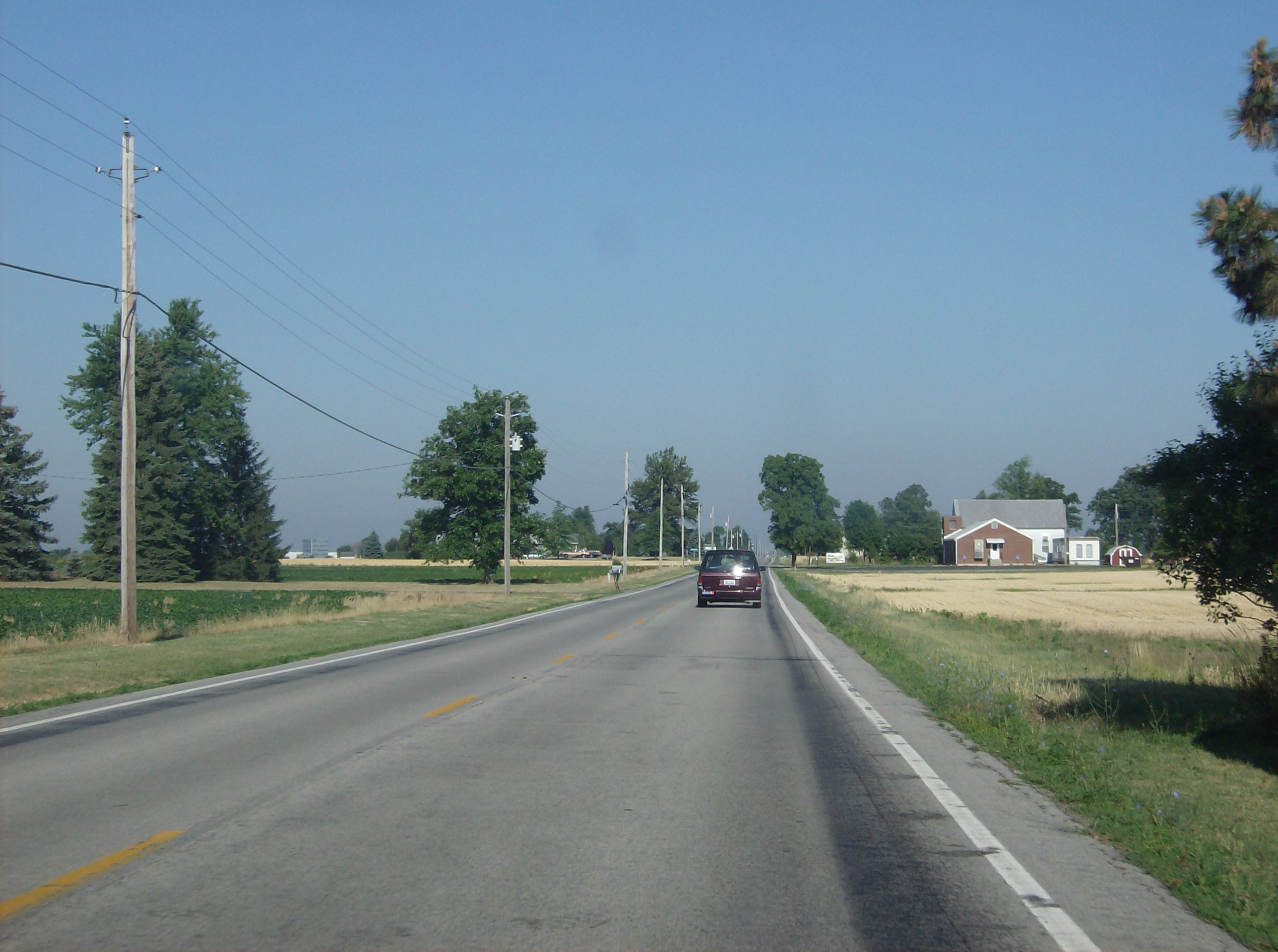 View along westbound State Route 103 in northwestern Orange Township, Hancock County, Ohio, United States.